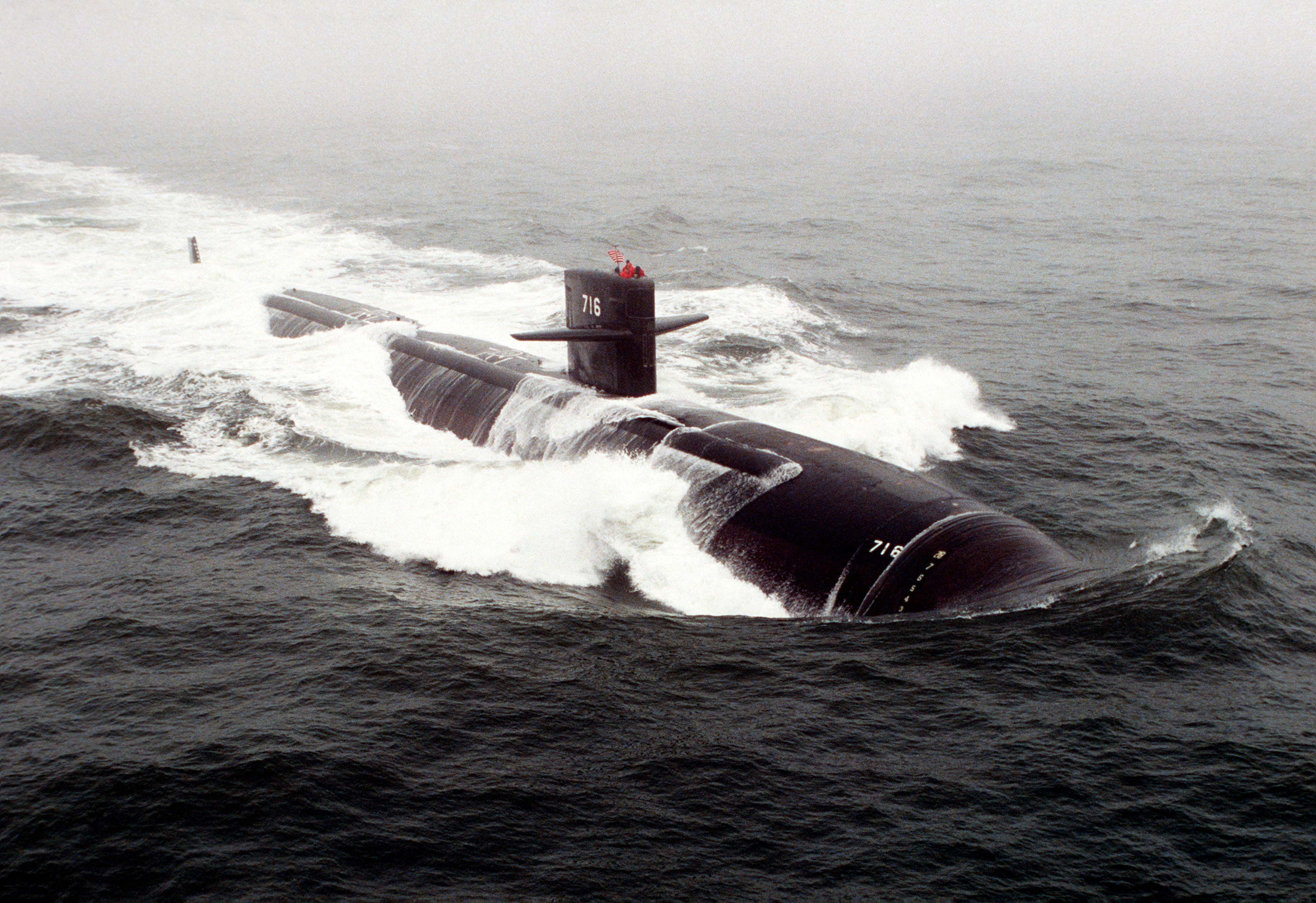 The U.S. Navy submarine USS Salt Lake City (SSN-716) underway during sea trials prior to commissioning on 5 April 1984.